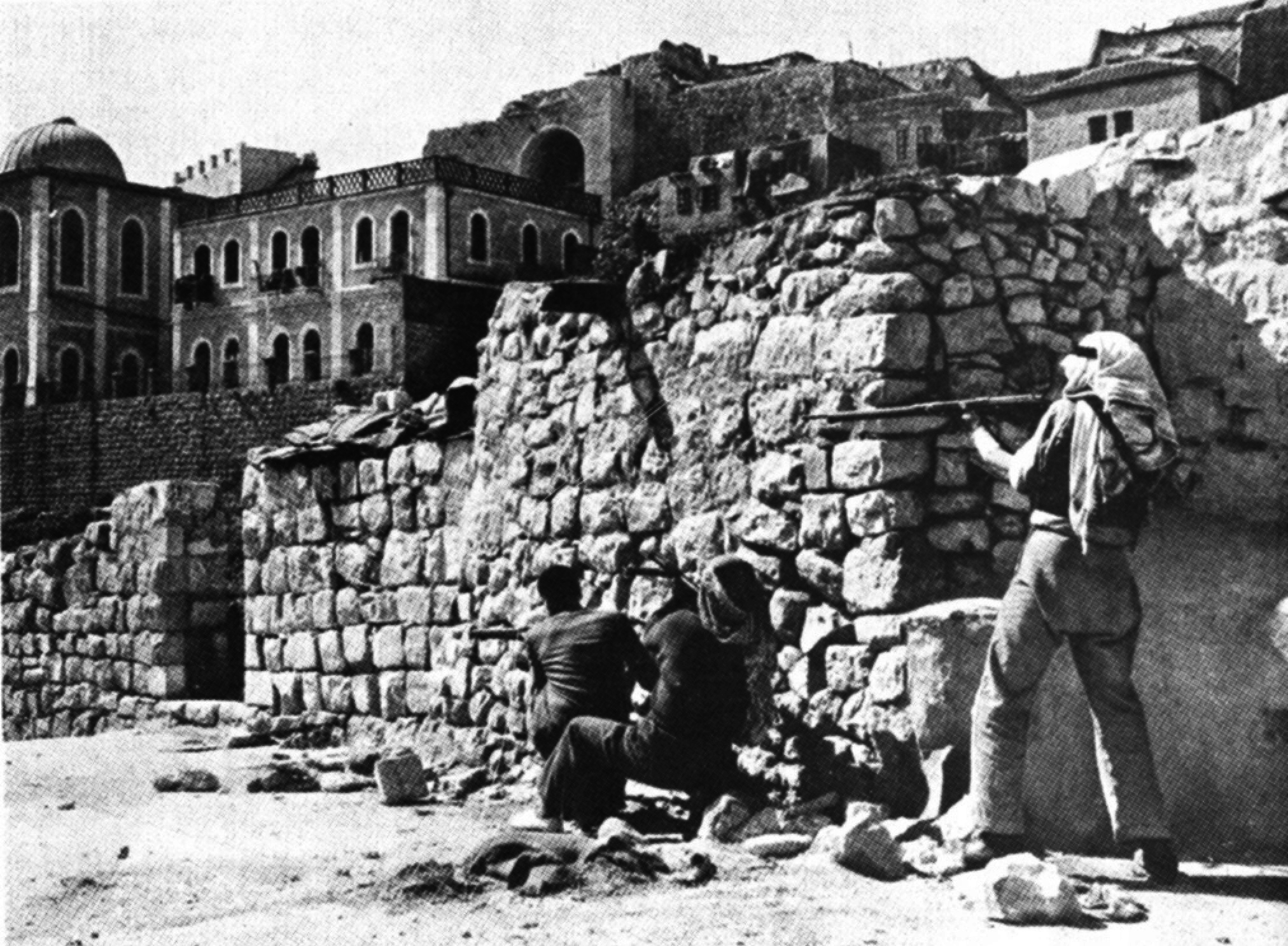 The Arab Legion attacking the Jewish Quarter of Jerusalem, May 1948.